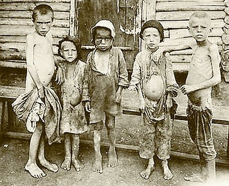 Hunger in Russia, a picture taken in Buguruslan, 1921